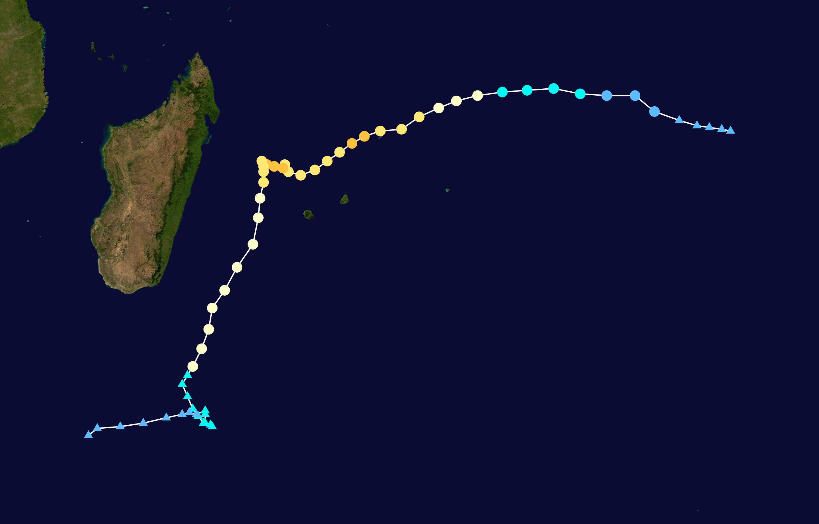 Track map of Intense Tropical Cyclone Gamede of the 2006-07 South West Indian Ocean cyclone season. The points show the location of the storm at 6-hour intervals. The colour represents the storm's maximum sustained wind speeds as classified in the Saffir–Simpson scale (see below), and the shape of the data points represent the nature of the storm, according to the legend below. Saffir–Simpson scale Tropical depression≤38 mph≤62 km/h Category 3111–129 mph178–208 km/h Tropical storm39–73 mph63–118 km/h Category 4130–156 mph209–251 km/h Category 174–95 mph119–153 km/h Category 5≥157 mph≥252 km/h Category 296–110 mph154–177 km/h Unknown Storm type Tropical cyclone Subtropical cyclone Extratropical cyclone / Remnant low / Tropical disturbance / Monsoon depression